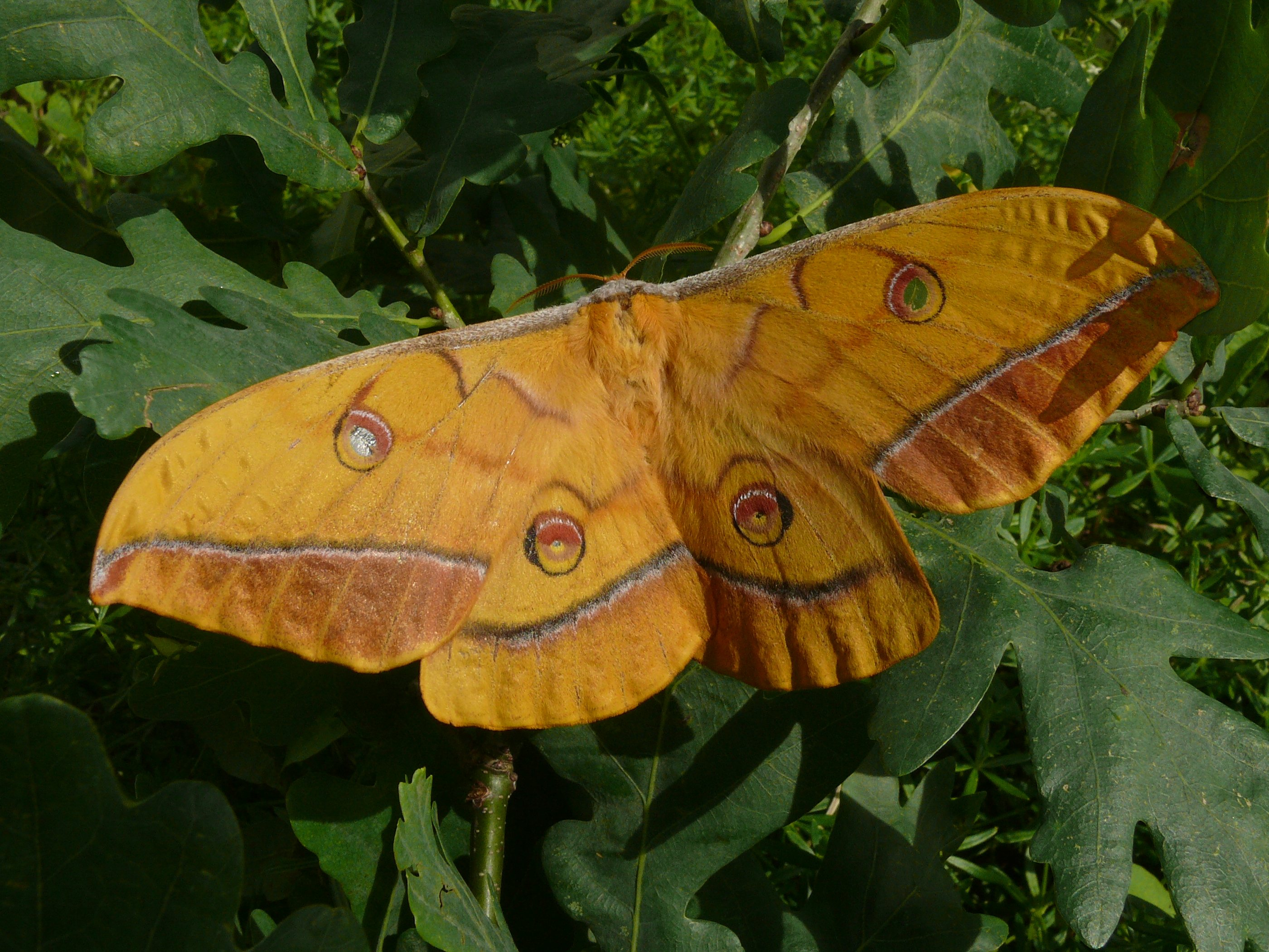 Female Japanese Silk Moth or Japanese Oak Silkmoth (Antheraea yamamai)